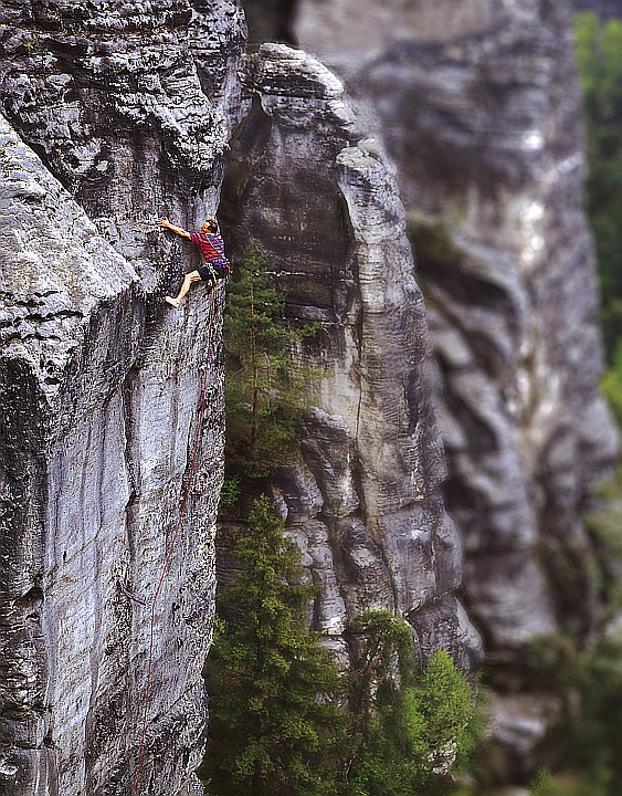 Bernd Arnold, Peukers Problem am Basteischluchturm, VIIIb, Elbsandsteingebirge - Sächsische Schweiz Bernd Arnold, Peukers Problem Basteischluchturm, VIIIb, Elbsandsteingebirge - Saxon Switzerland